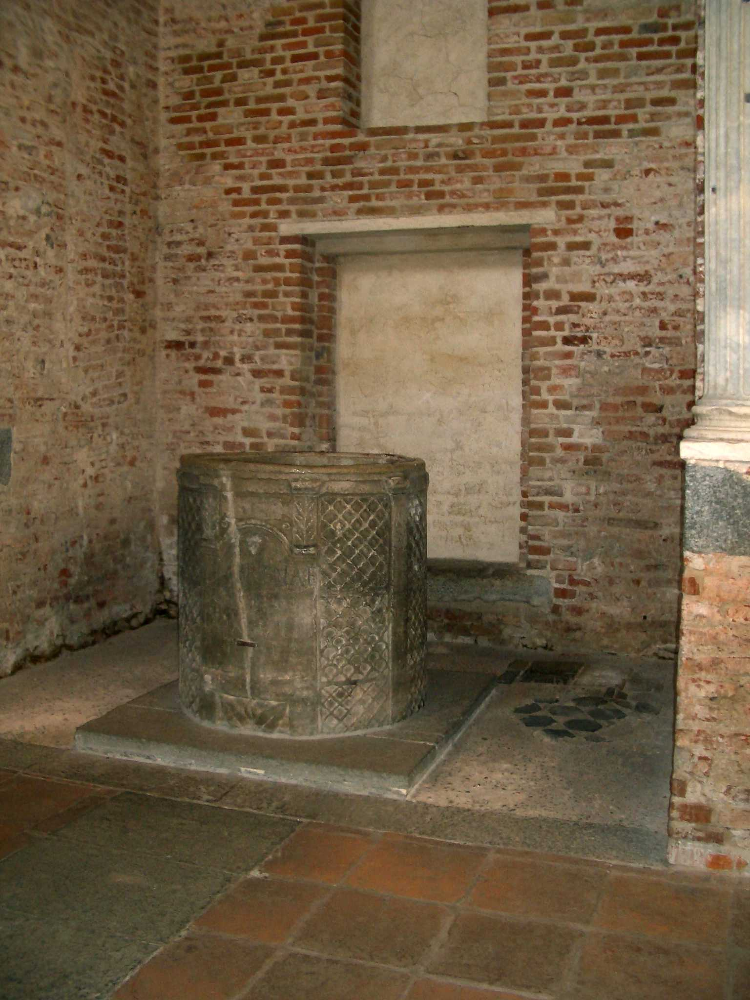 Roman urn (II century) used since the medieval age as baptismal font